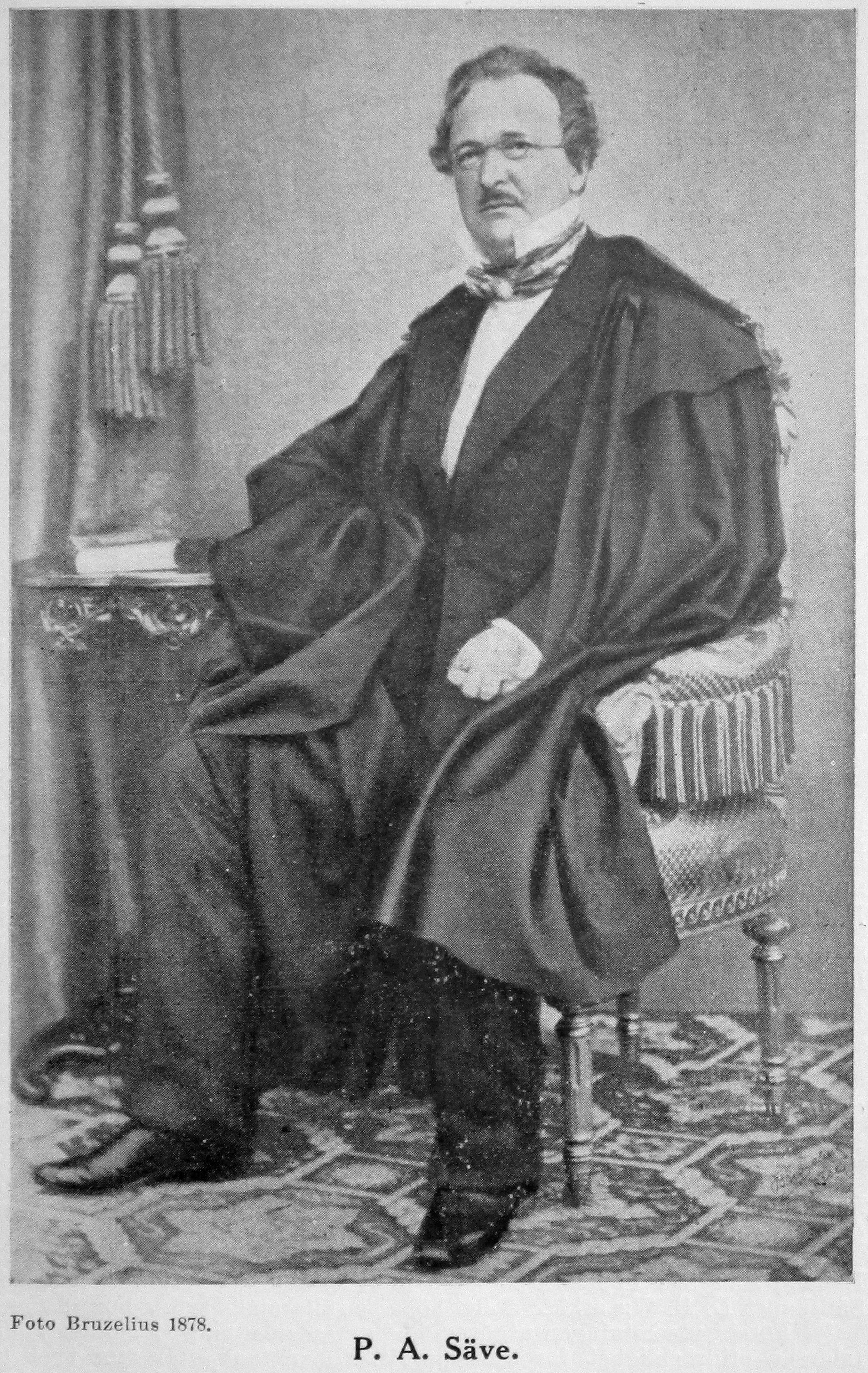 P. A. Säve (Pehr Magnus Arvid Säve) (1811-1887) in circa 1870, historian.